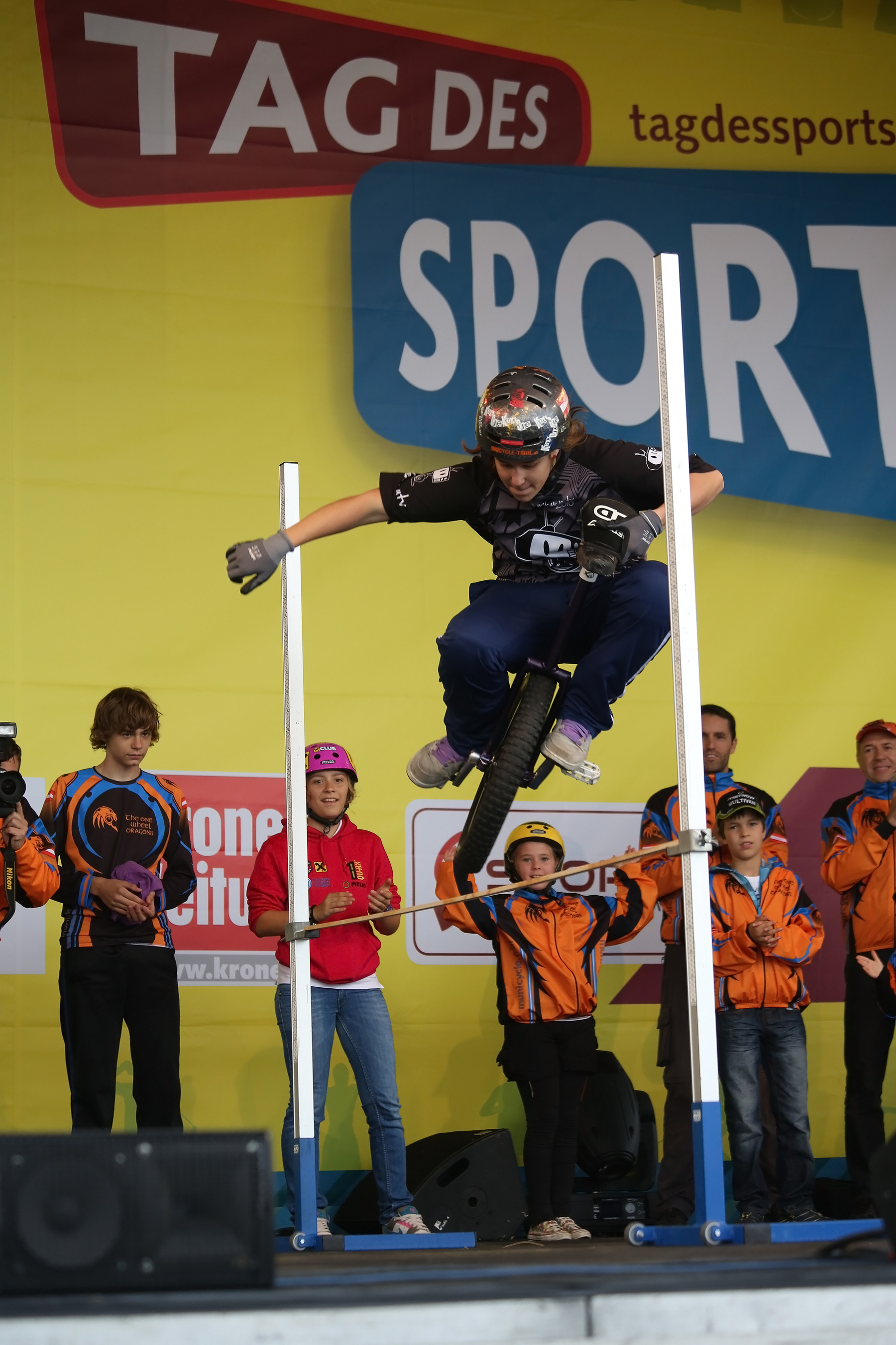 Mary Wegscheider at the Tag des Sports (Day of Sports) 2013 on Heldenplatz in Vienna, Austria.